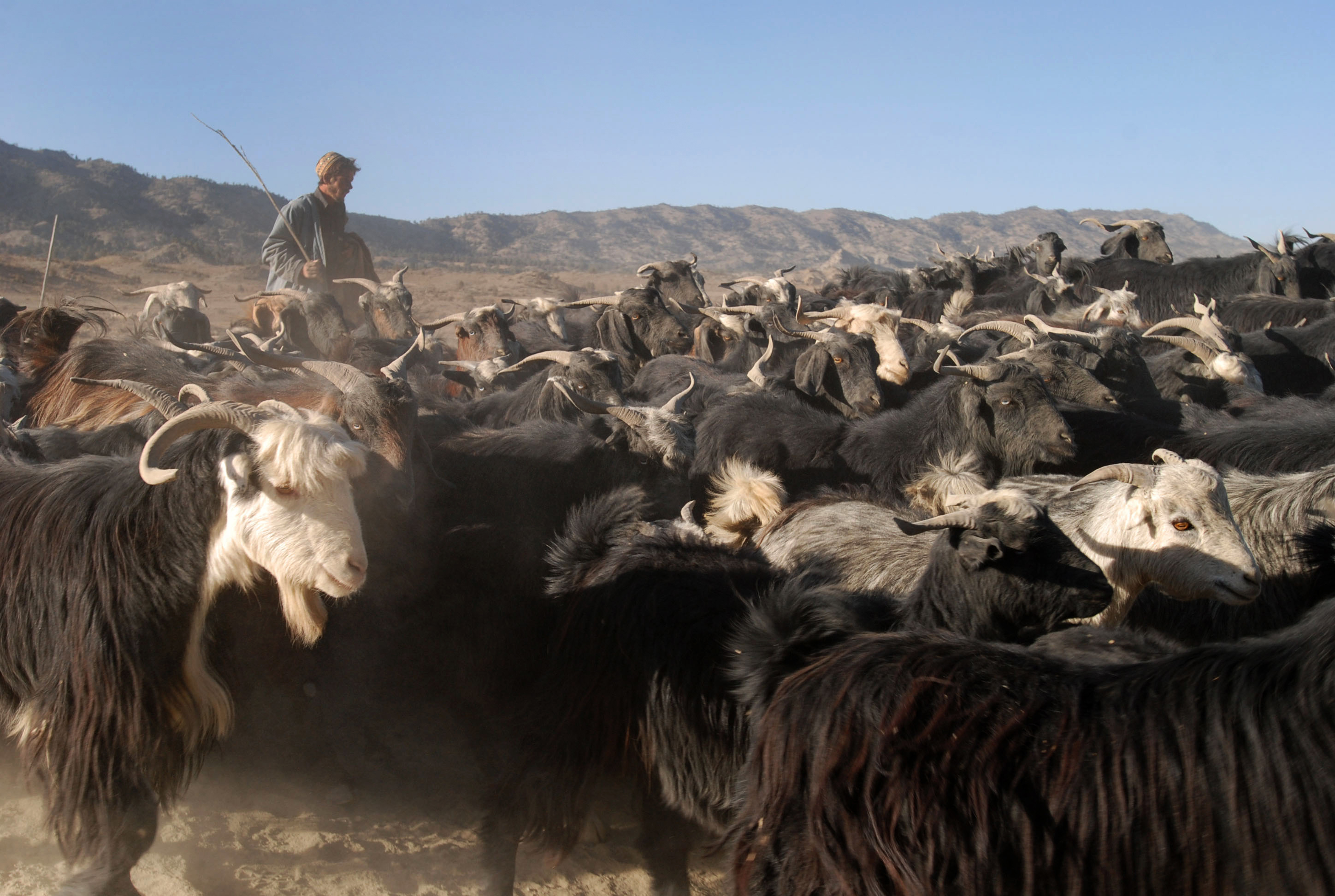 071109-A-2013C-086 An Afghan shepherd whistles and yells to keep his herd of goats moving together while passing a 173rd Airborne Brigade patrol base in eastern Paktika Province, Afghanistan, Nov. 9. (U.S. Army photo by Spc. Micah E. Clare)